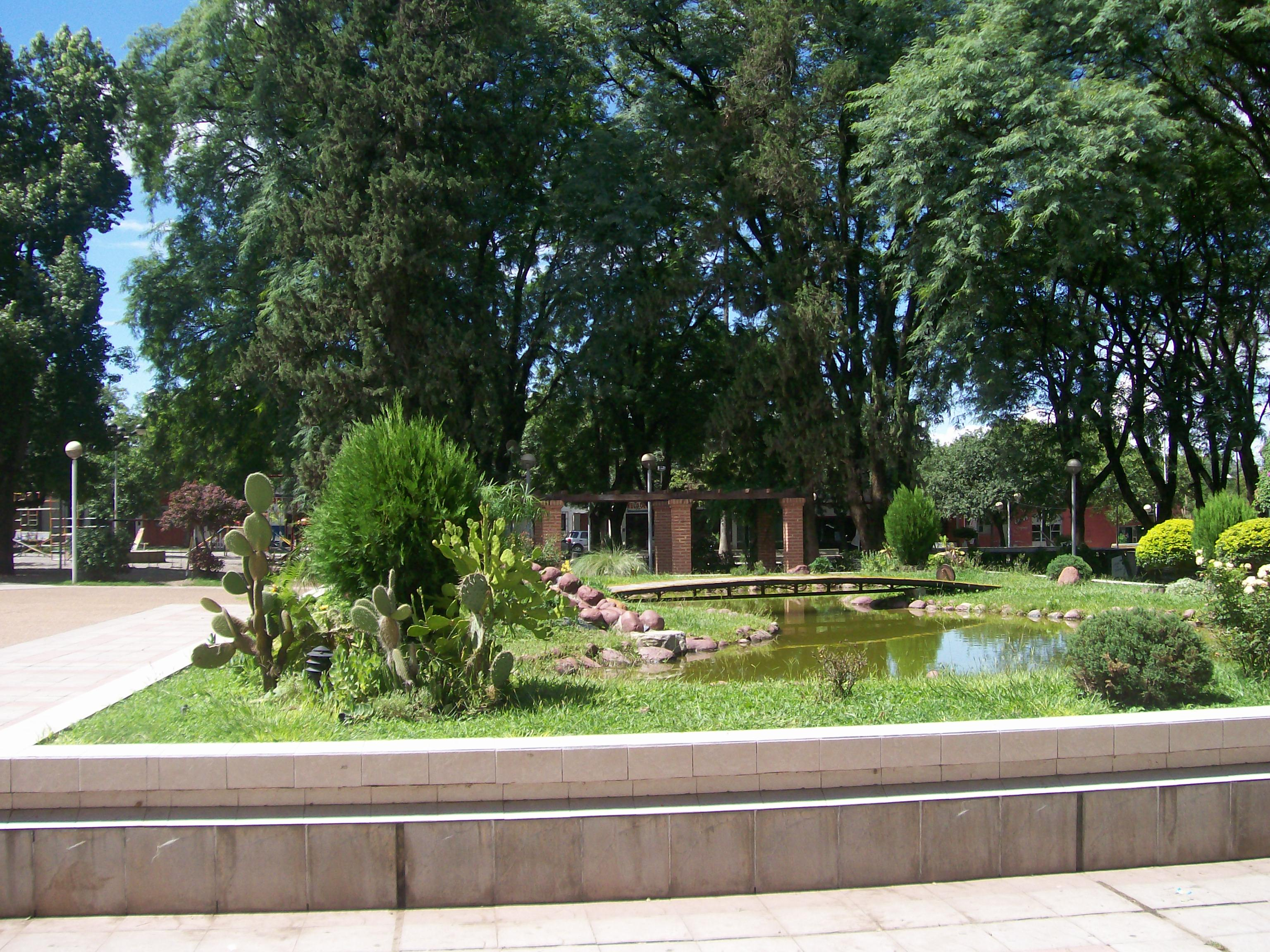 Center of San Martín square in San José de Metán (Salta Province, Argentina).